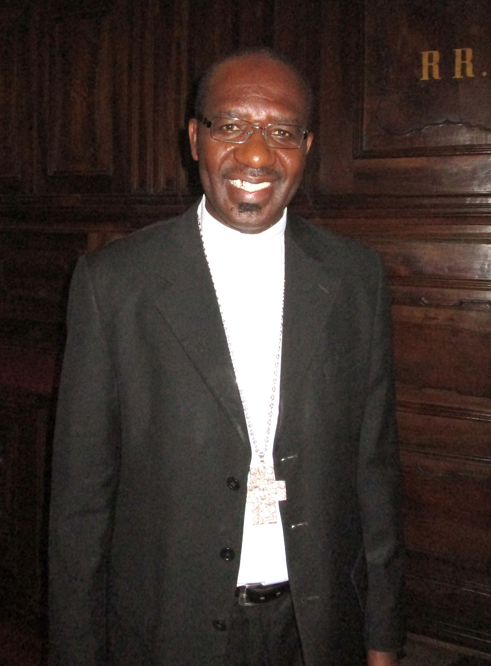 Archbishop José Manuel Imbamba, in Lodi, 23rd August 2015